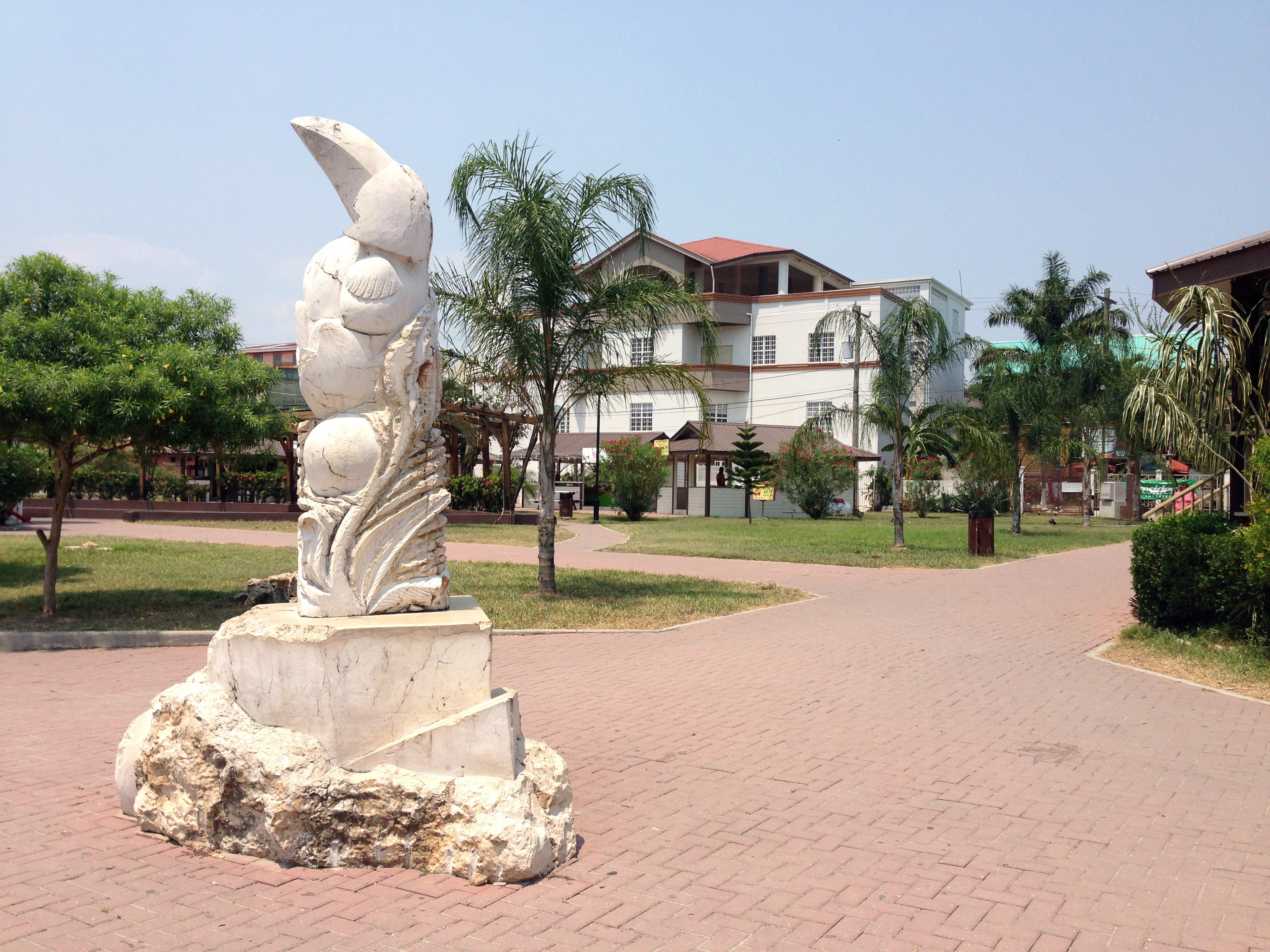 Welcome Center area in San Igancio, Belize